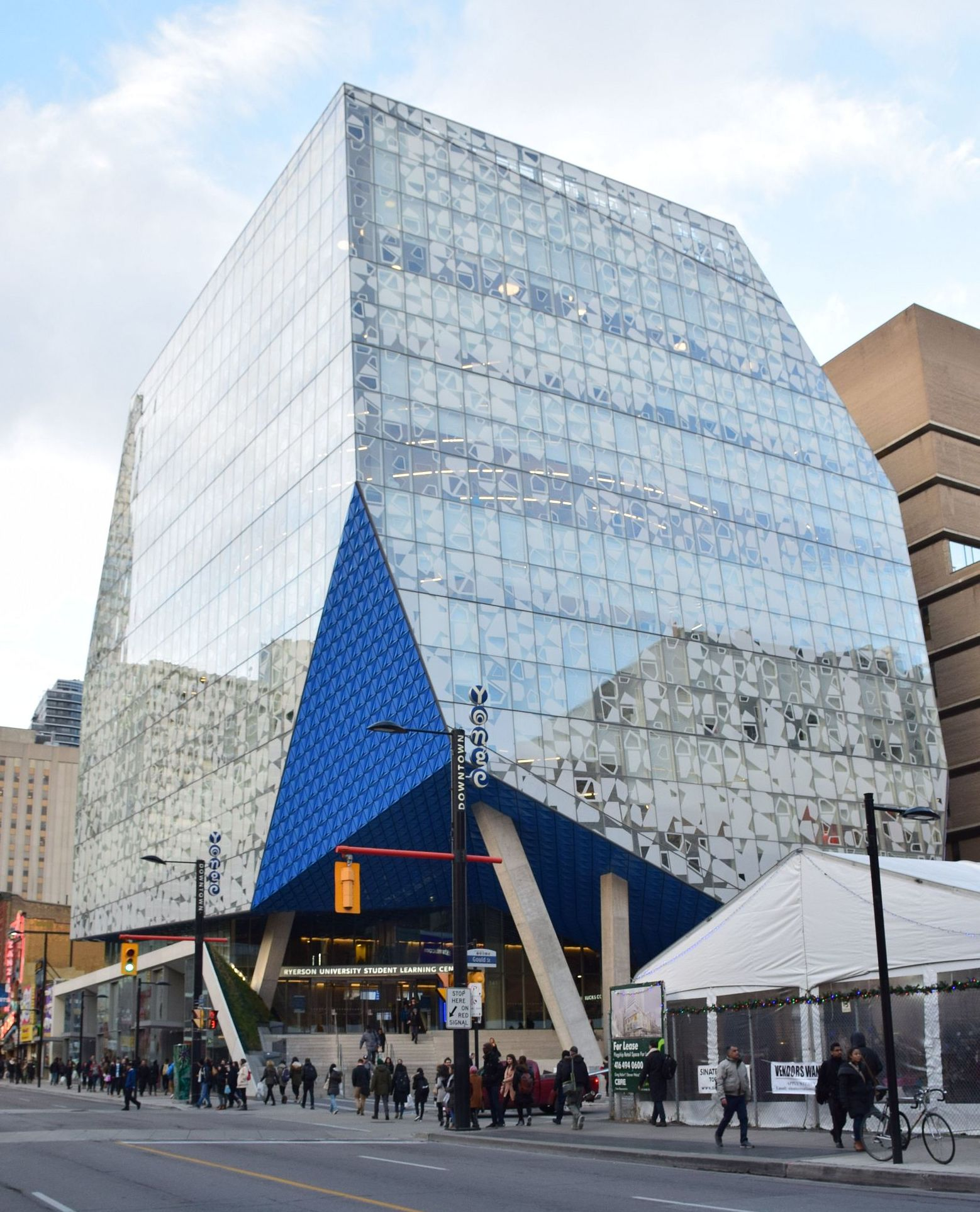 Ryerson Student Learning Centre